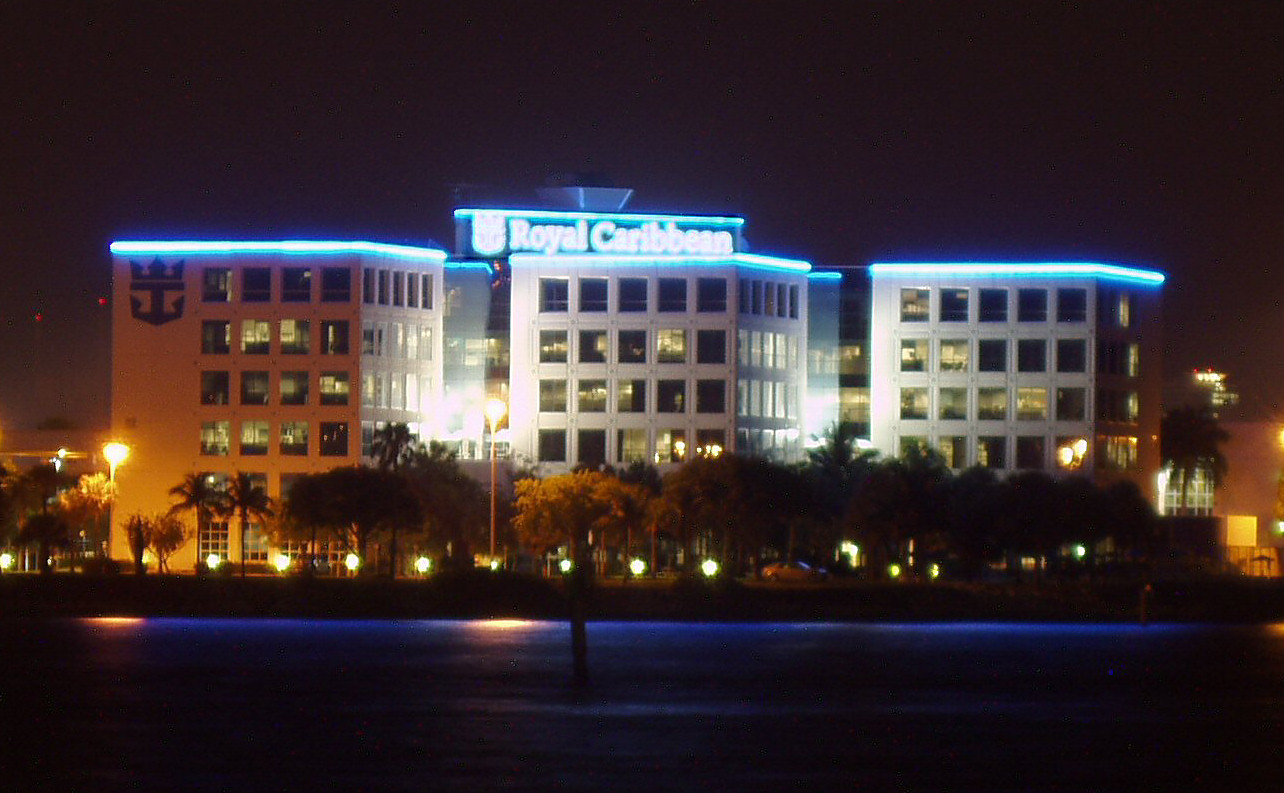 U.S. headquarters of Royal Caribbean International in Miami, Florida. Photo shot by Derek Jensen (Tysto), 2004-05-21